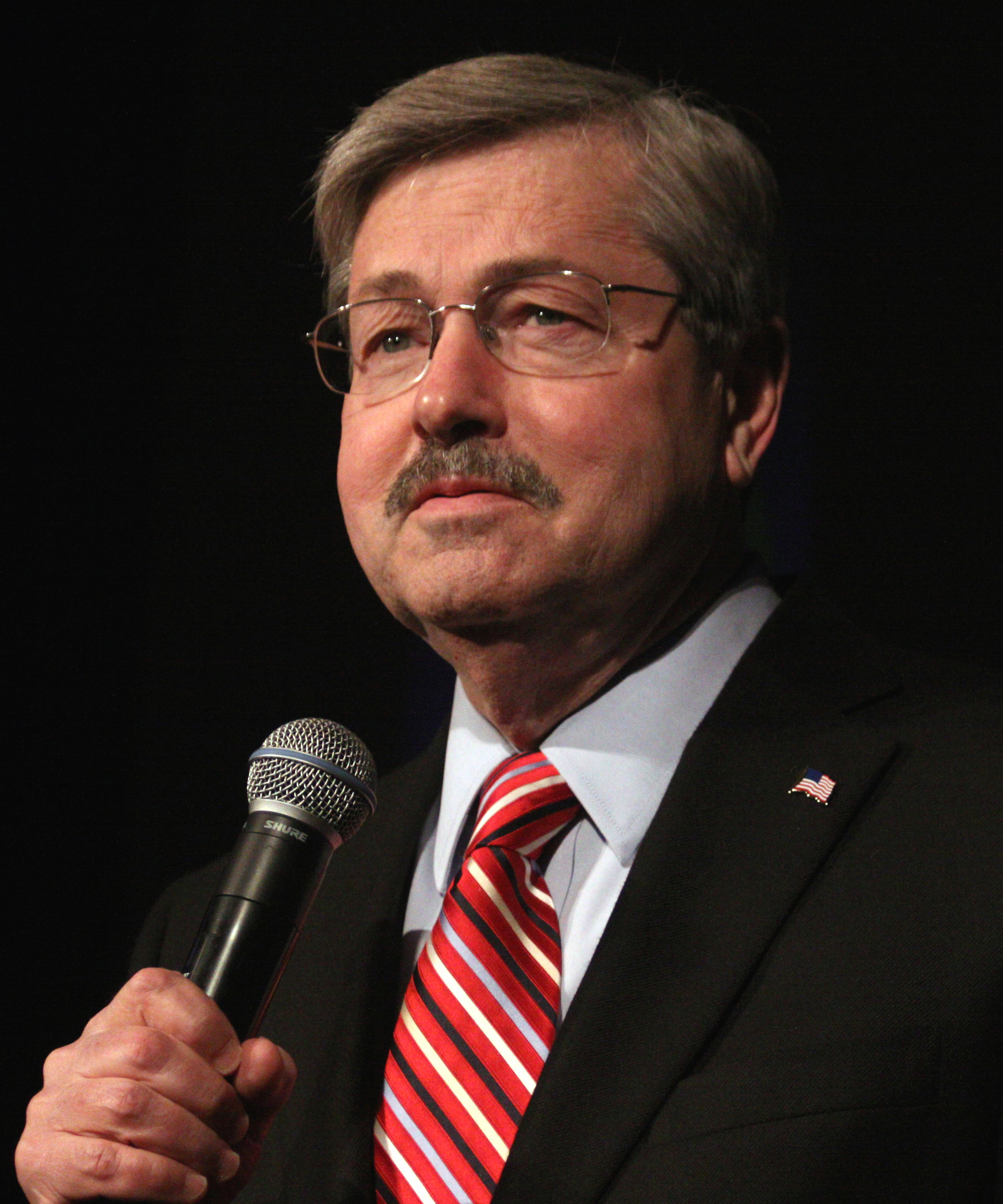 Iowa Governor Terry Branstad speaking in Des Moines, Iowa on April 1, 2011.